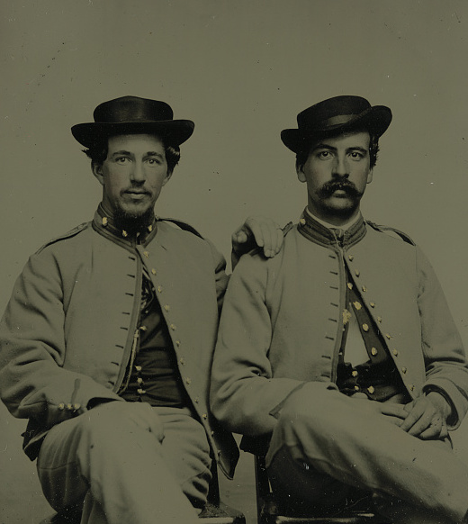 [Private William Liming of Co. B, 21st U.S. Veteran Reserve Corps Infantry Regiment, and unidentified soldier in same uniform]; [between 1862 and 1865]; 1 photograph : ninth-plate ambrotype, hand-colored ; 8.0 x 6.9 cm (case) Note: 21st Regiment, Veteran Reserve Corps, Organized January 12, 1865; Mustered out by November 20, 1865. Notes: Title devised by Library staff. Case: Papier mache with mother of pearl and hand painting; floral design. Use digital images. Original served only by appointment because material requires special handling. For more information see: ( Deposit; Tom Liljenquist; 2013; (D067) Purchased from: The Virginia Confederate, Waldorf, Maryland, 2013. Forms part of: Liljenquist Family Collection of Civil War Photographs (Library of Congress). Forms part of: Ambrotype/Tintype photograph filing series (Library of Congress). Subjects: Liming, William Holland,--1843-1926. Format: Group portraits--1860-1870. Portrait photographs--1860-1870. Ambrotypes--Hand-colored--1860-1870. Repository: Library of Congress, Prints and Photographs Division, Washington, D.C. 20540 USA, Part Of: Ambrotype/Tintype filing series (Library of Congress) (DLC) 2010650518 Liljenquist Family collection (Library of Congress) (DLC) 2010650519 More information about this collection is available at Higher resolution image is available (Persistent URL): Call Number: AMB/TIN no. 3095